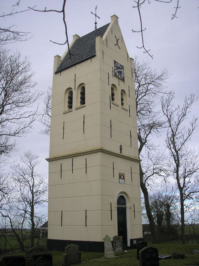 Aegum: Free-standing churchtower on graveyard. The main wing was dismantled in 1856 and rumour has it that the stones were reused to build a pub somewhere nearby.Location: Aegum, Friesland, NetherlandsKeywords: Eagum, church, churchyard